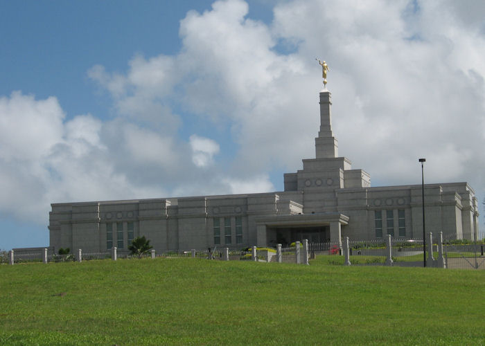 Suva Fiji Temple of The Church of Jesus Christ of Latter-day Saints. Taken Aug 2007.